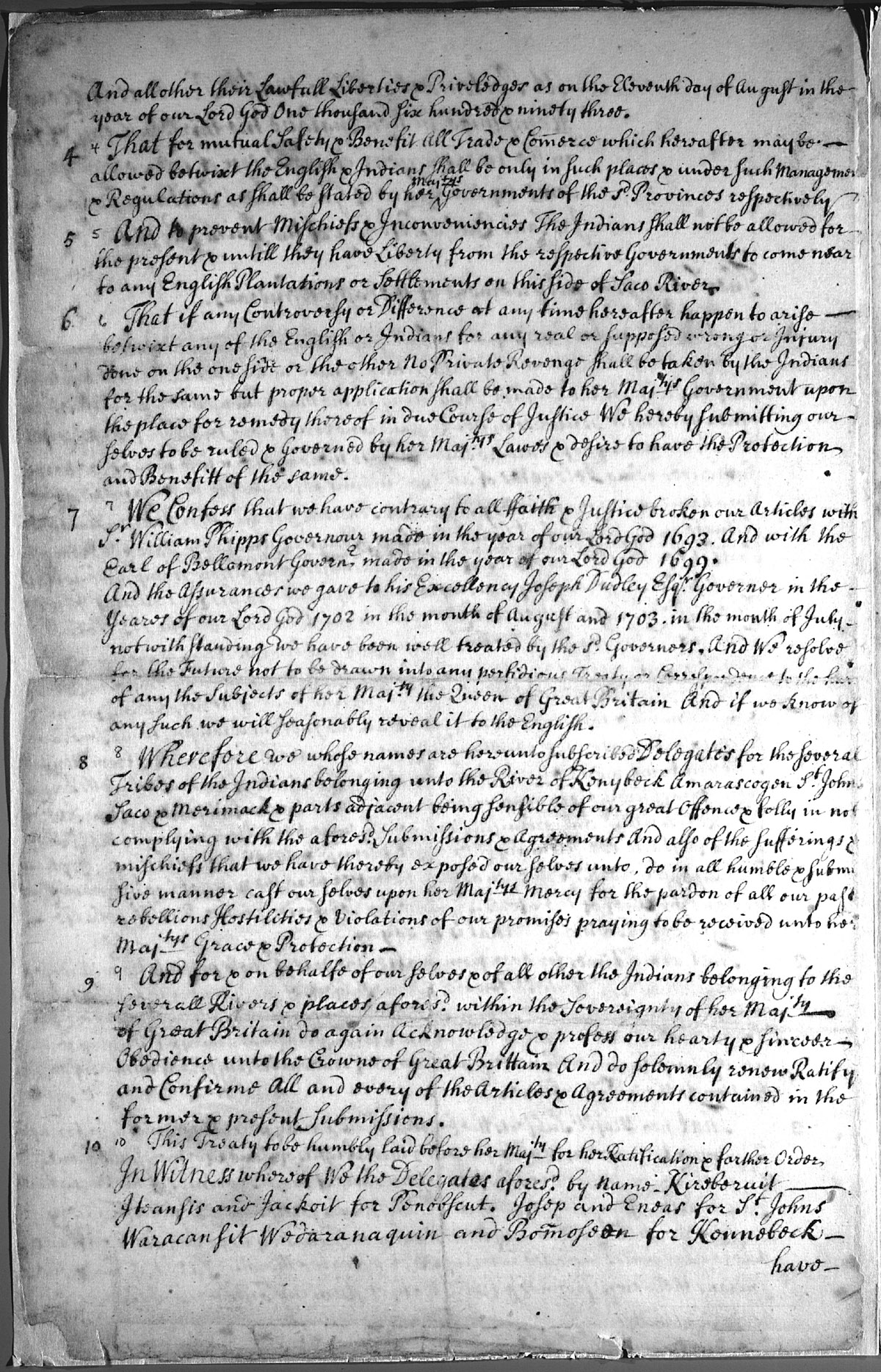 The Treaty of Portsmouth (1713), page 2.